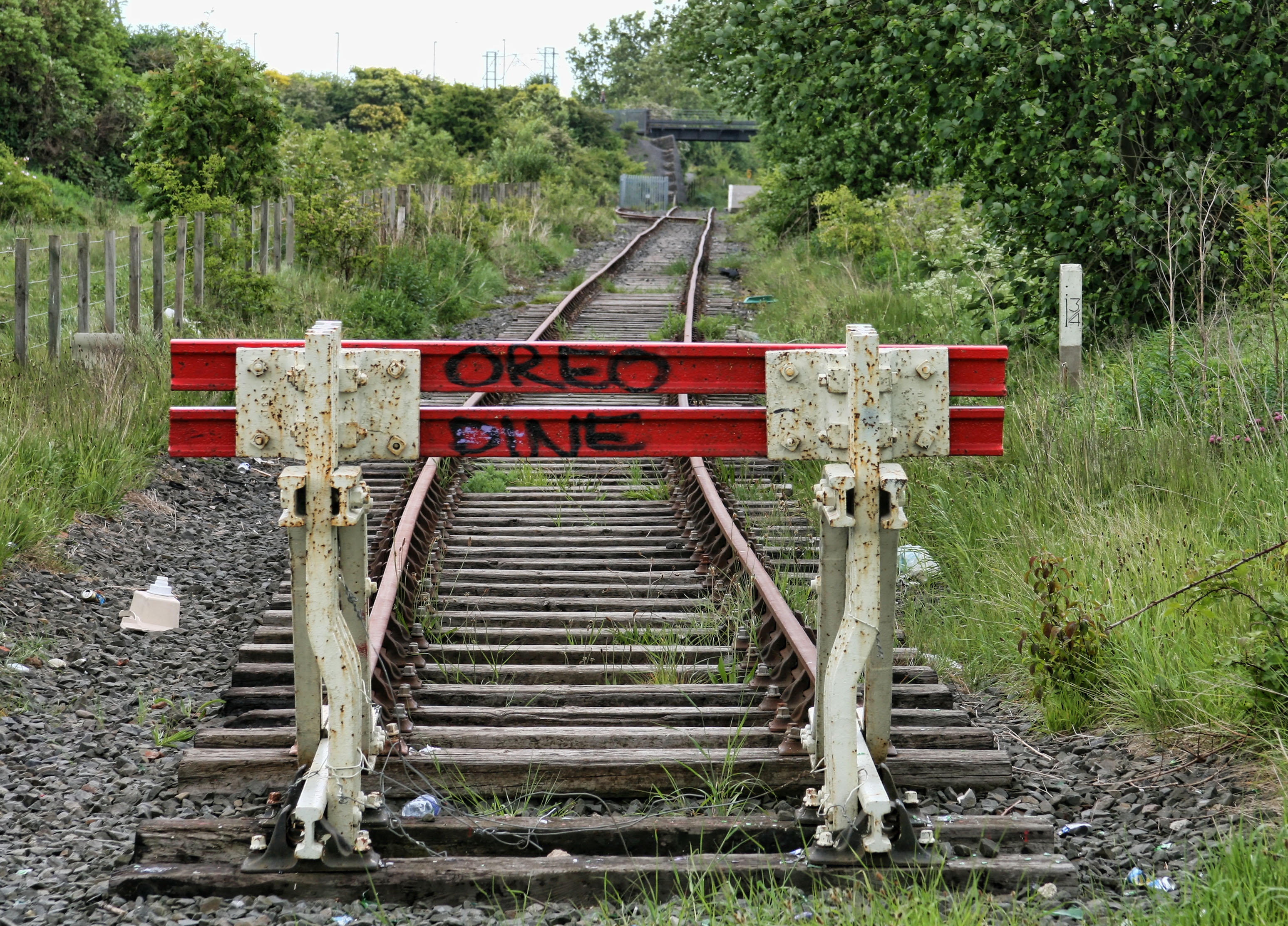 North Tyneside Steam Railway